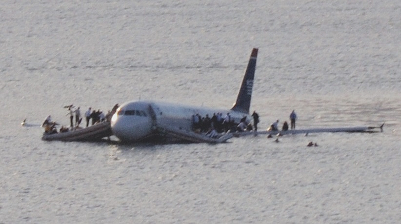 Photo of US Airways Flight 1549 after crashing into the Hudson River in New York City, United States.